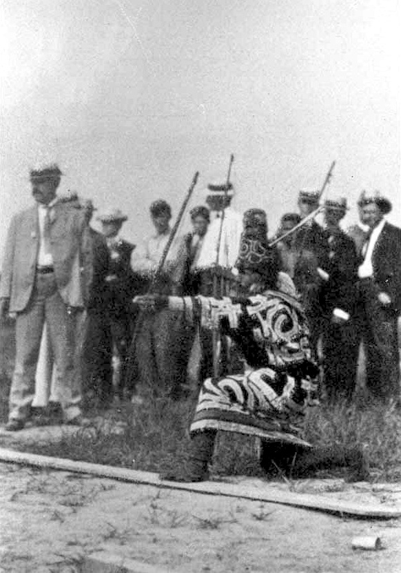 The original source was captioned: One of the Ainus in Archery Contest - Anthropological Day. (1904 Summer Olympics)